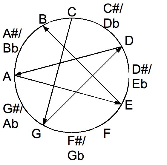 All fifths tuning drawn in the chromatic circle.